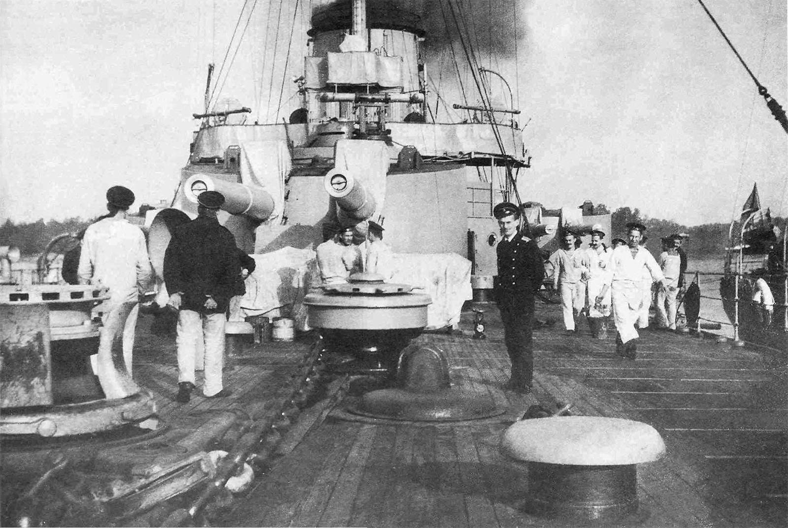 Arimoured cruiser Ryurik.